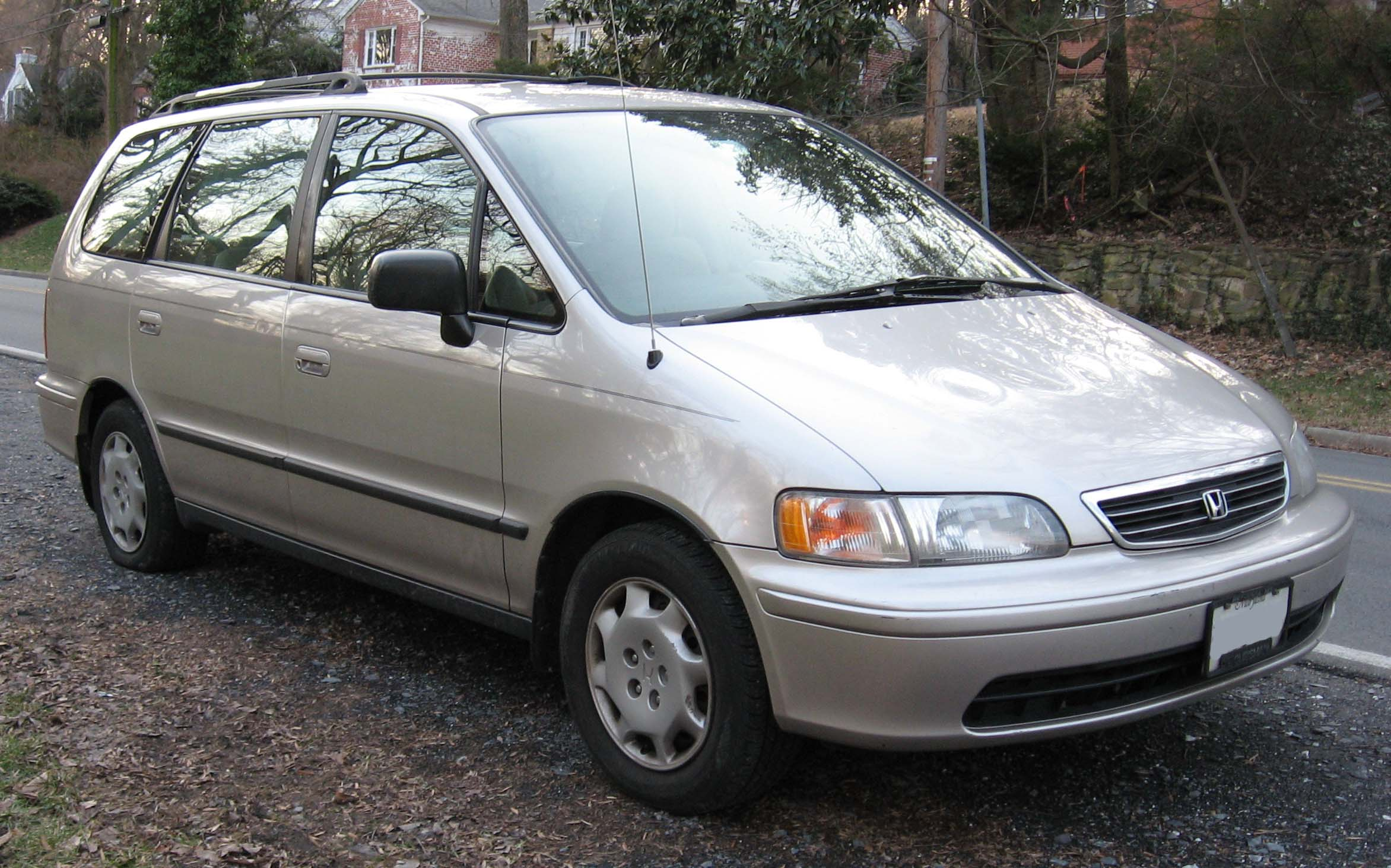 1995-1998 Honda Odyssey photographed in USA.